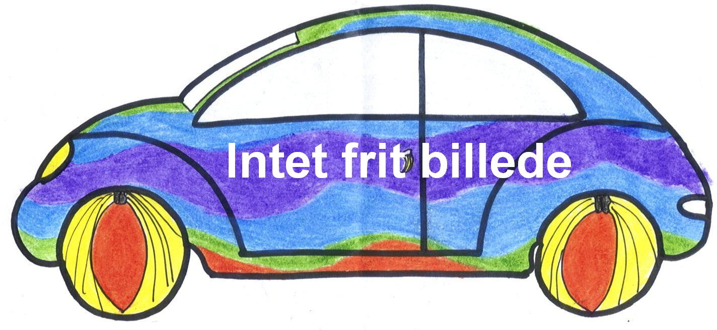 The Danish text reads "No free photo available"